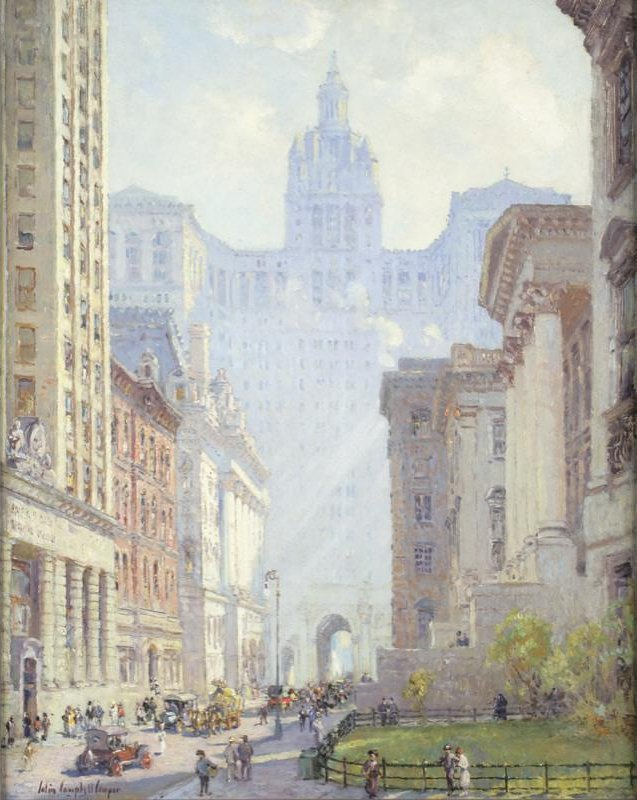 Chambers Street and the Municipal Building, N.Y.C., Colin Campbell Cooper, oil on panel, 30 x 24 in, New York Historical Society